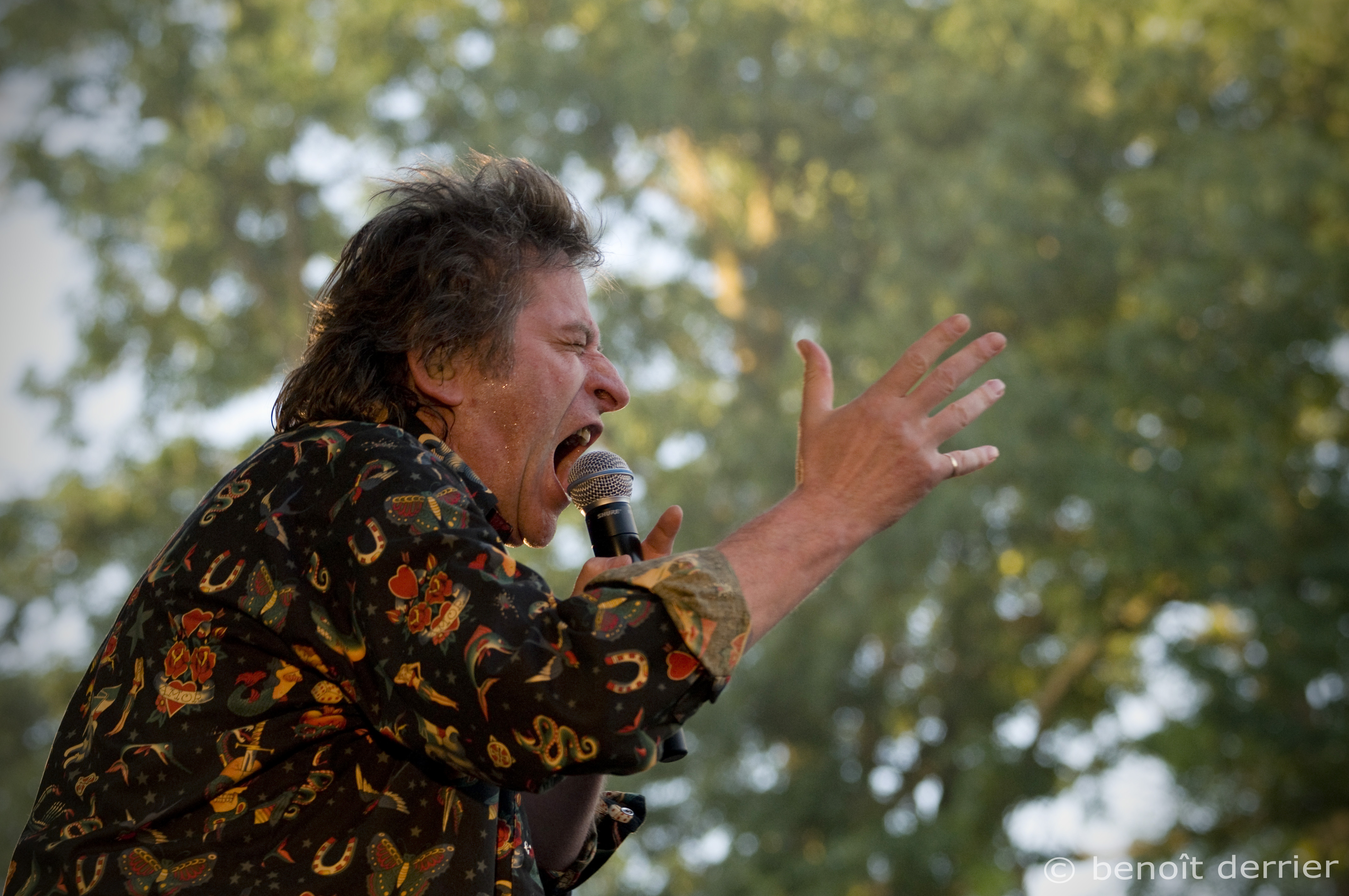 Paul Personne and Hubert-Félix Thiéfaine live at Aux Zarbs festival 2008 (Auxerre, France).